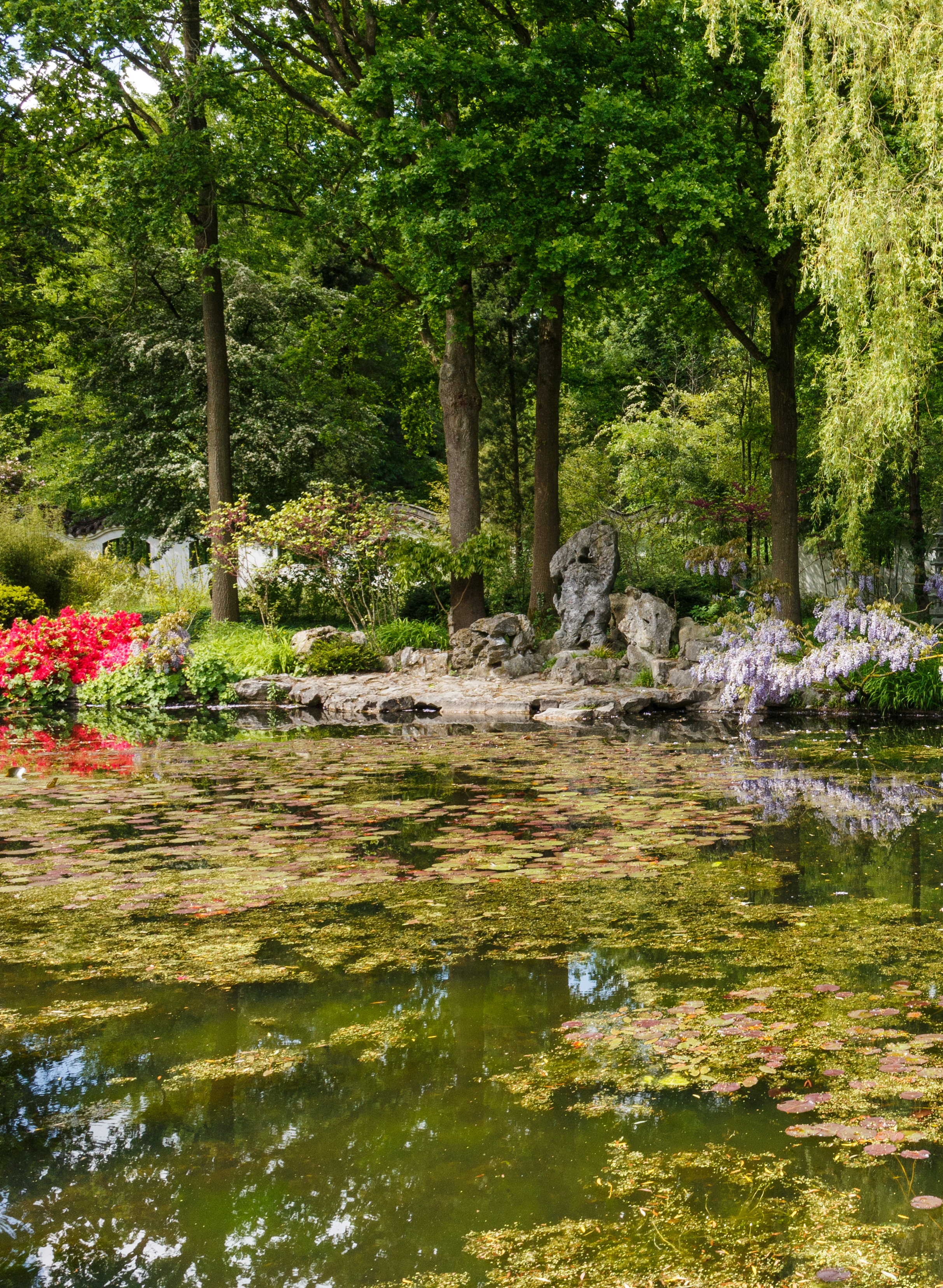 Stone object across the water. Location, Chinese garden, the Hidden Realm of Ming in the Hortus Haren in the Netherlands.